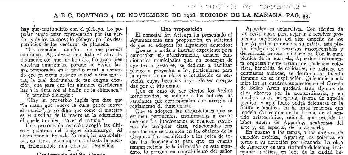 Madrid